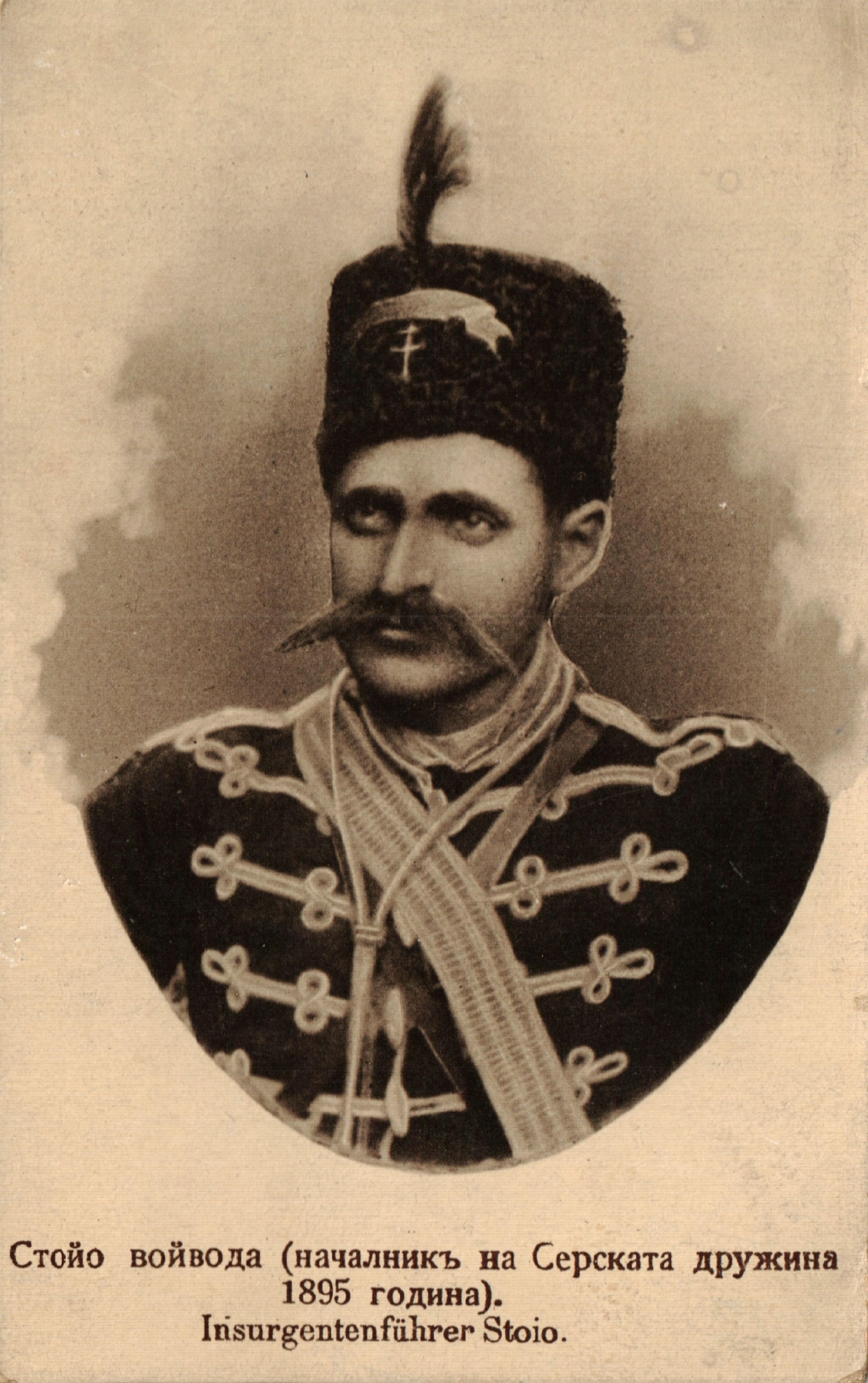 Stoyo Kostov